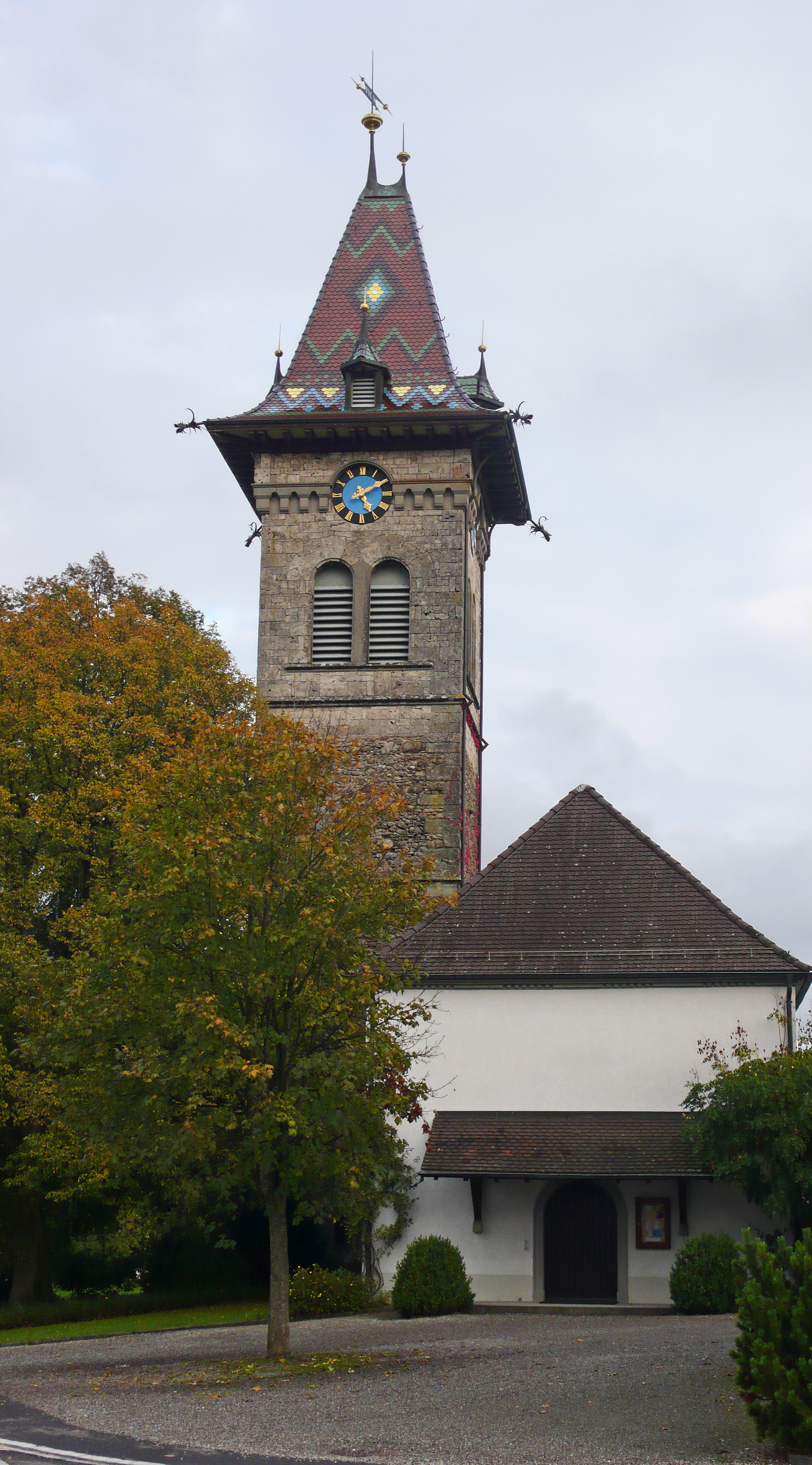 Reformed church of Oberhofen TG, Switzerland.